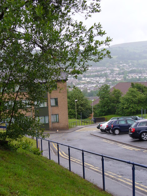 Glamorgan University Campus Built on a hillside overlooking the Taff Valley, the varsity used to be part of the Polytechnic of Wales. Large brick blocks of students' flats, like this one, are on campus.